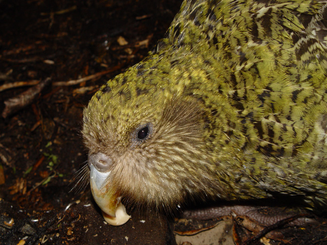 Kakapo Pura on Codfish Island.